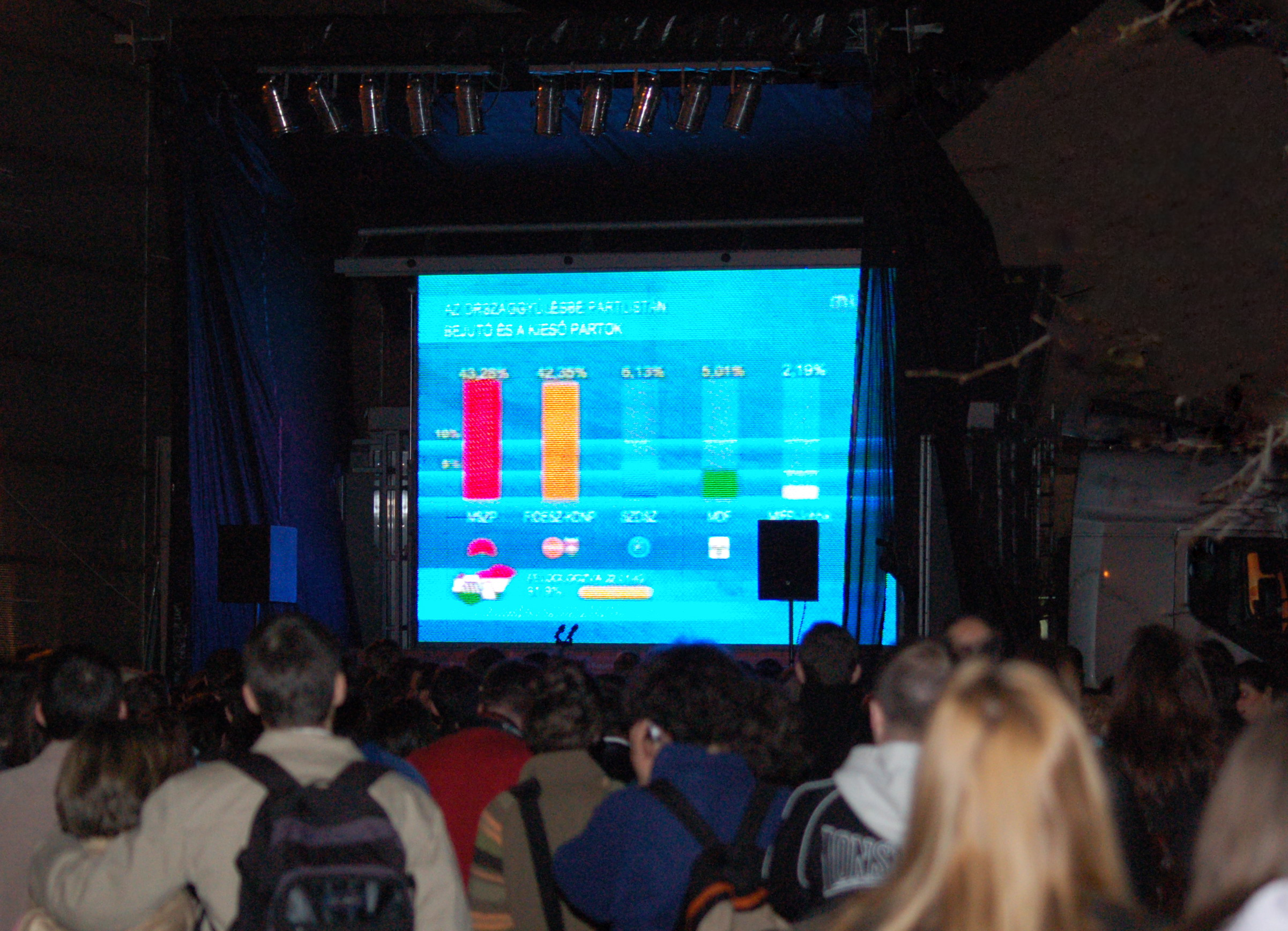 Result projection at Hungarian parliament election in 2006